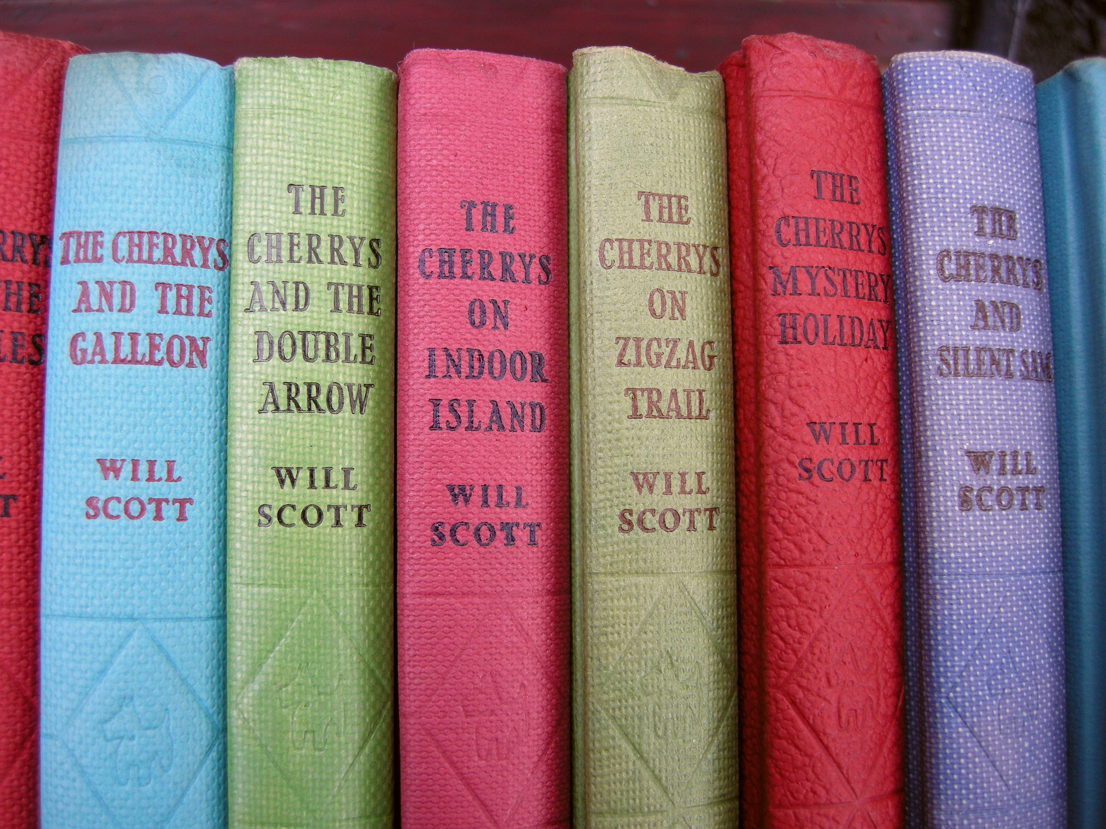 Books from The Cherrys series by Will Scott, plus one other. Published in the 1950s and 1960s.